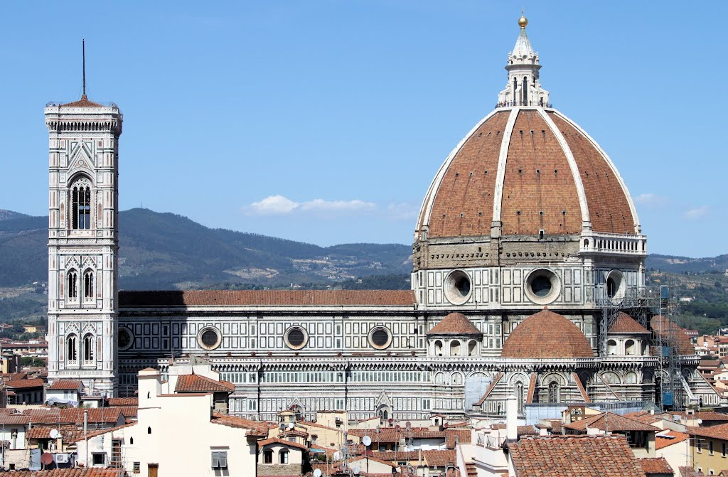 Duomo di Firenze